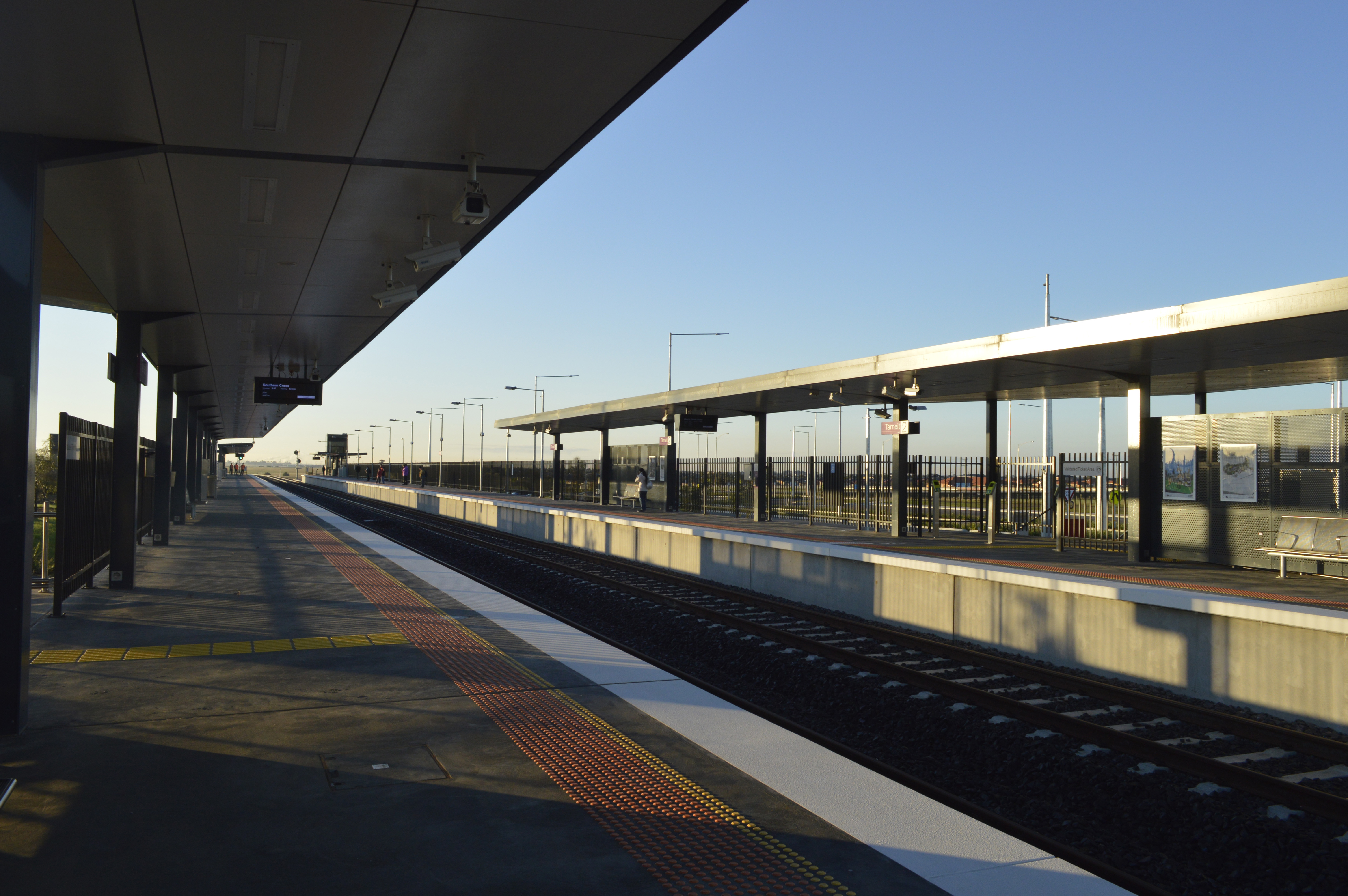 Looking east in June 2015, taken on the first day of opening.